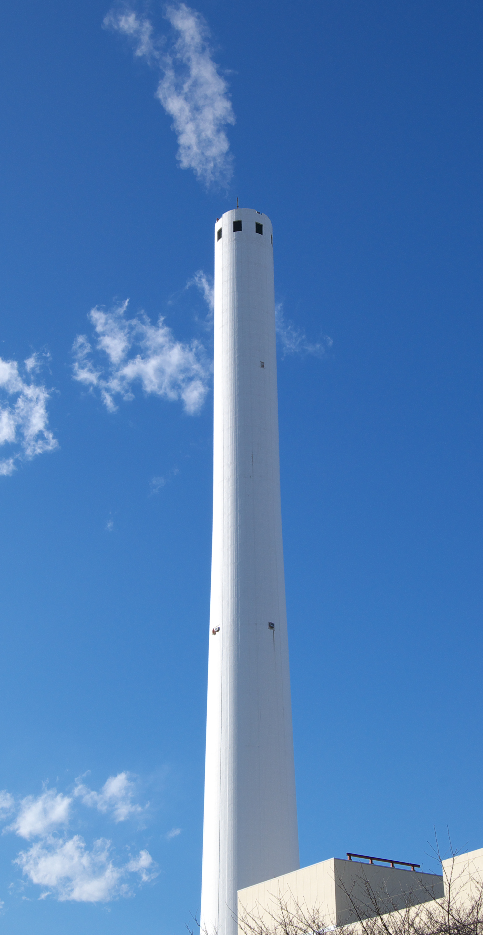 Chimney of Suginami Incineration photographed in Suginami, Tokyo